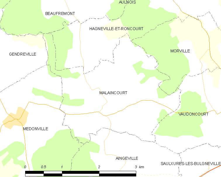 Map of French municipality Malaincourt